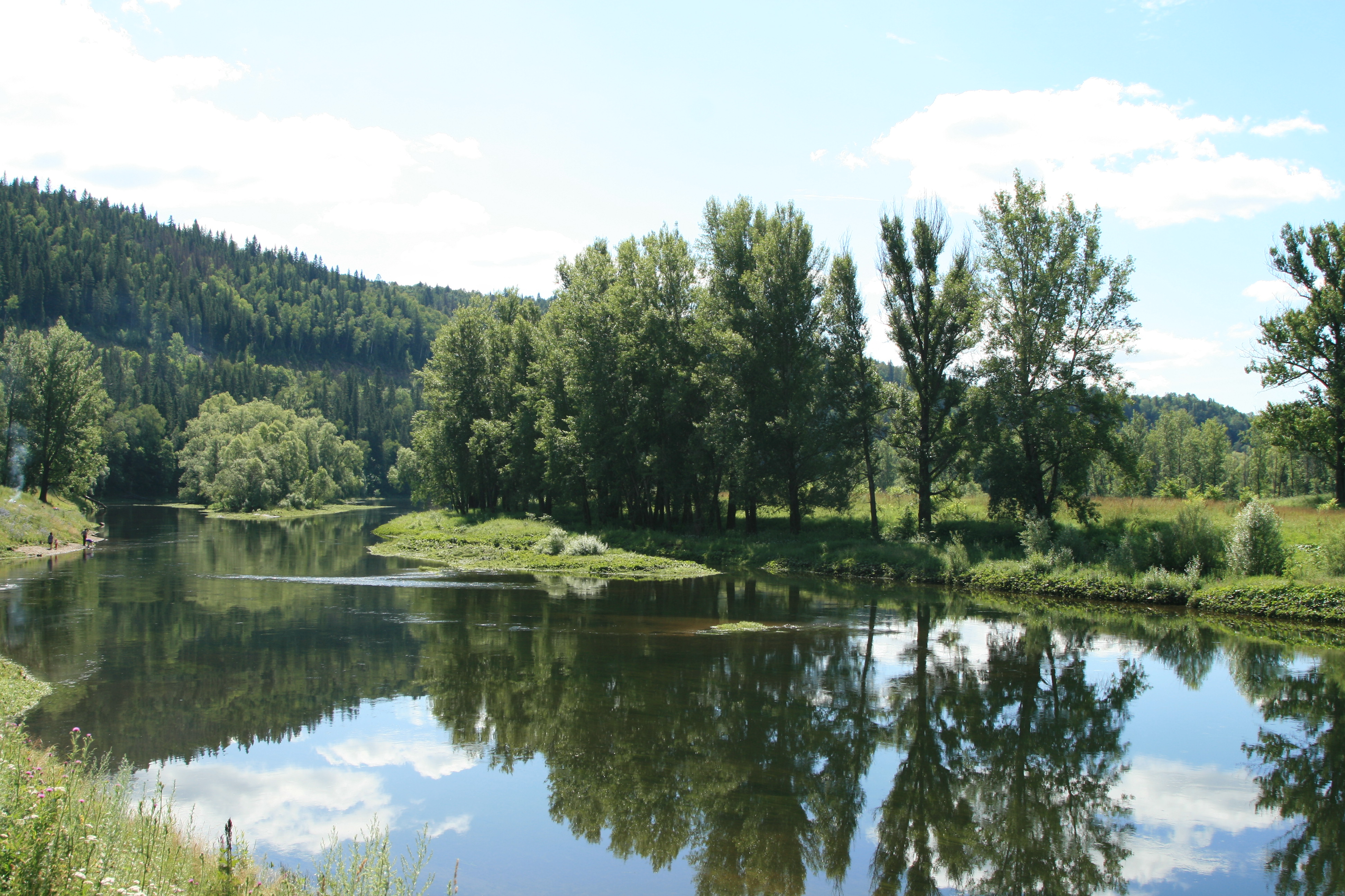 Ufa River (Karaidel) near the mineral springs of the Krasny Kluch.